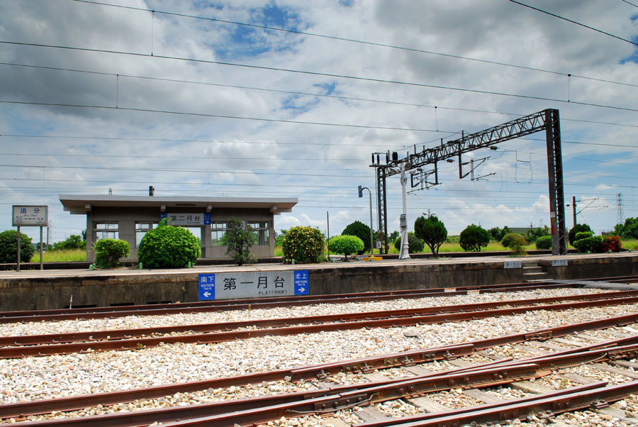 JhuiFen Station is a local train station of Taiwan's Western main rail line. It's located within the boundary of DaDu Township, TaiChung County. This photo shows the Platform One and Two of the station.